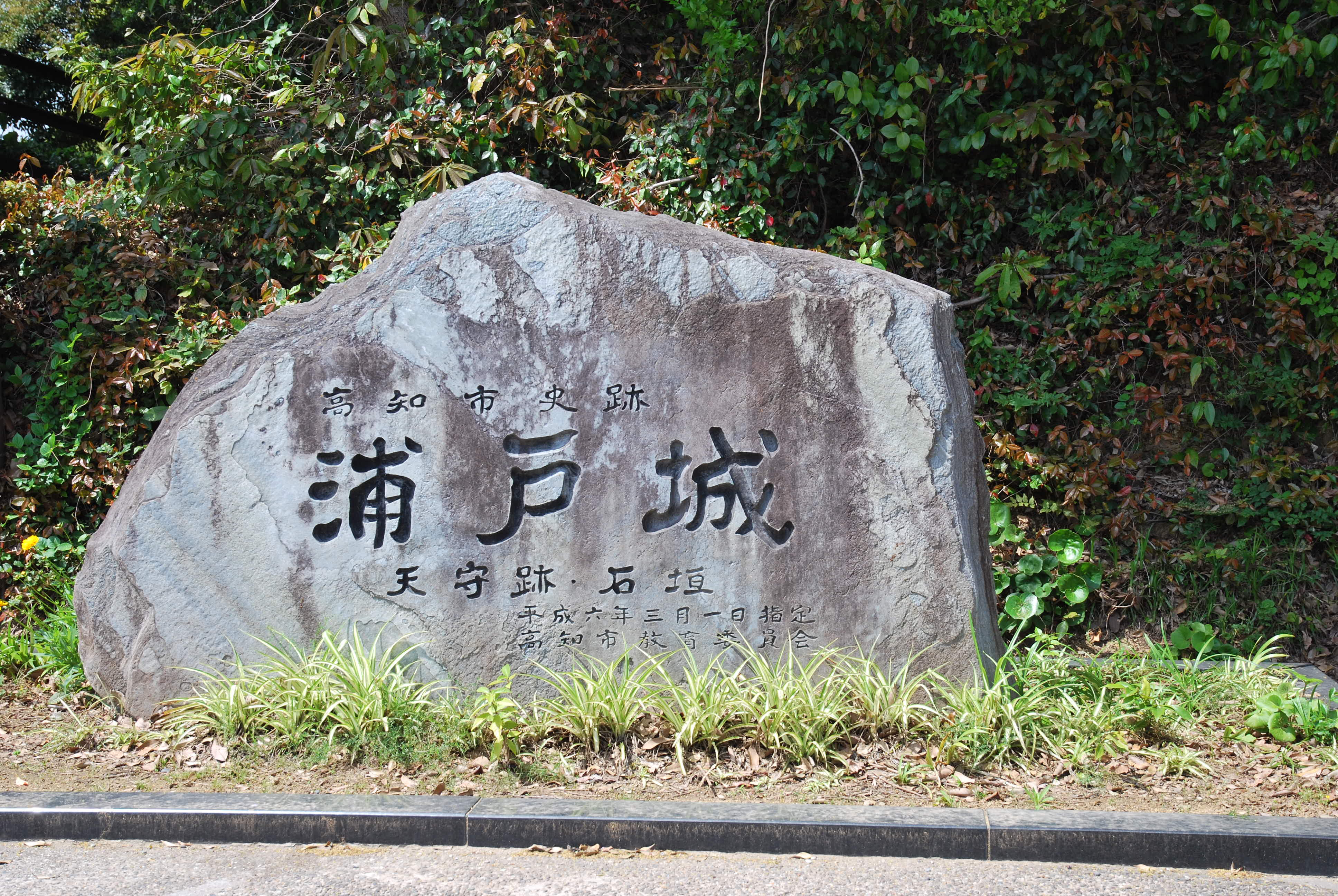 Stone monument of Urado-jō